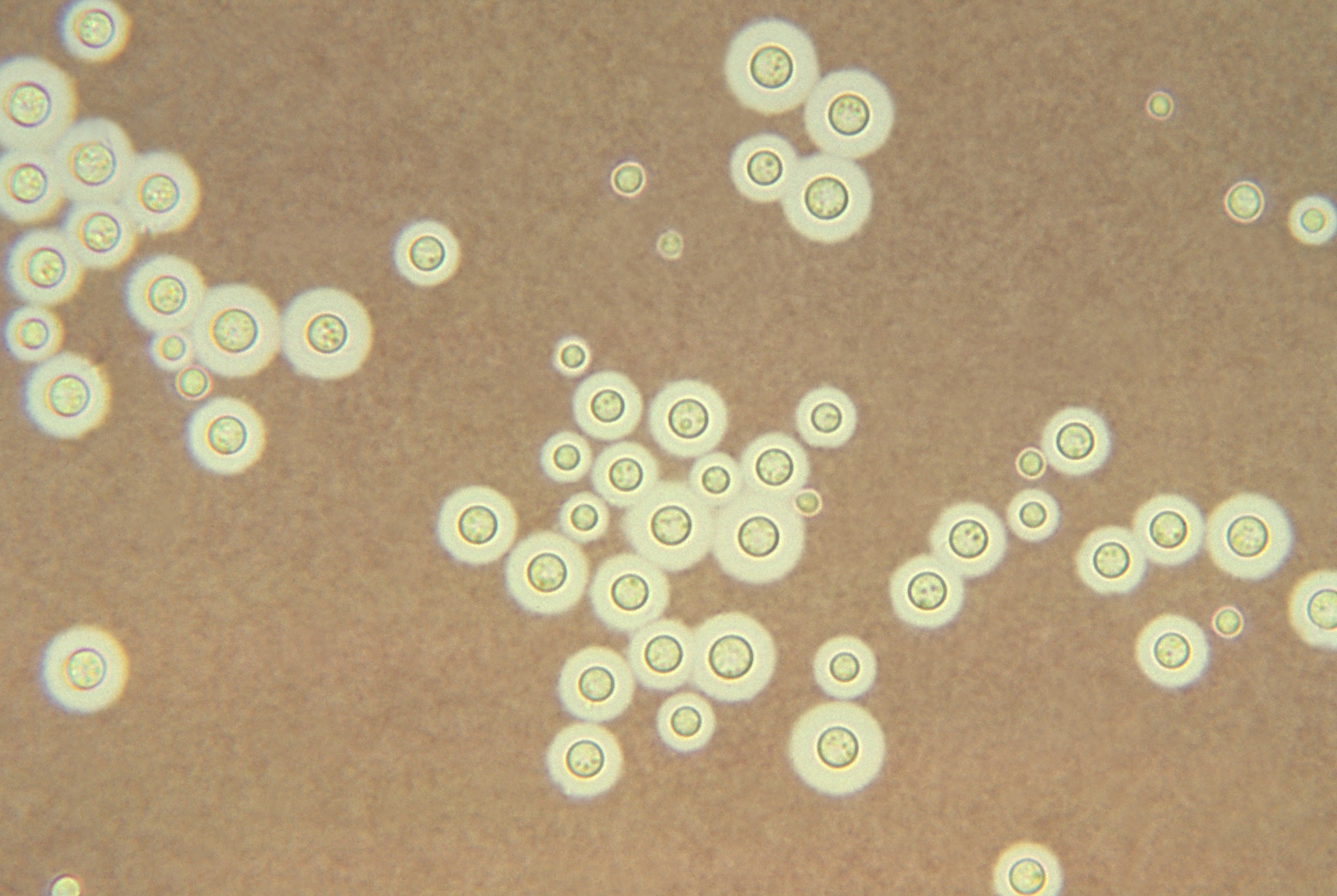 This photomicrograph depicts Cryptococcus neoformans using a light India ink staining preparation. Life-threatening infections caused by the encapsulated fungal pathogen Cryptococcus neoformans have been increasing steadily over the past 10 years because of the onset of AIDS, and the expanded use of immunosuppressive drugs.